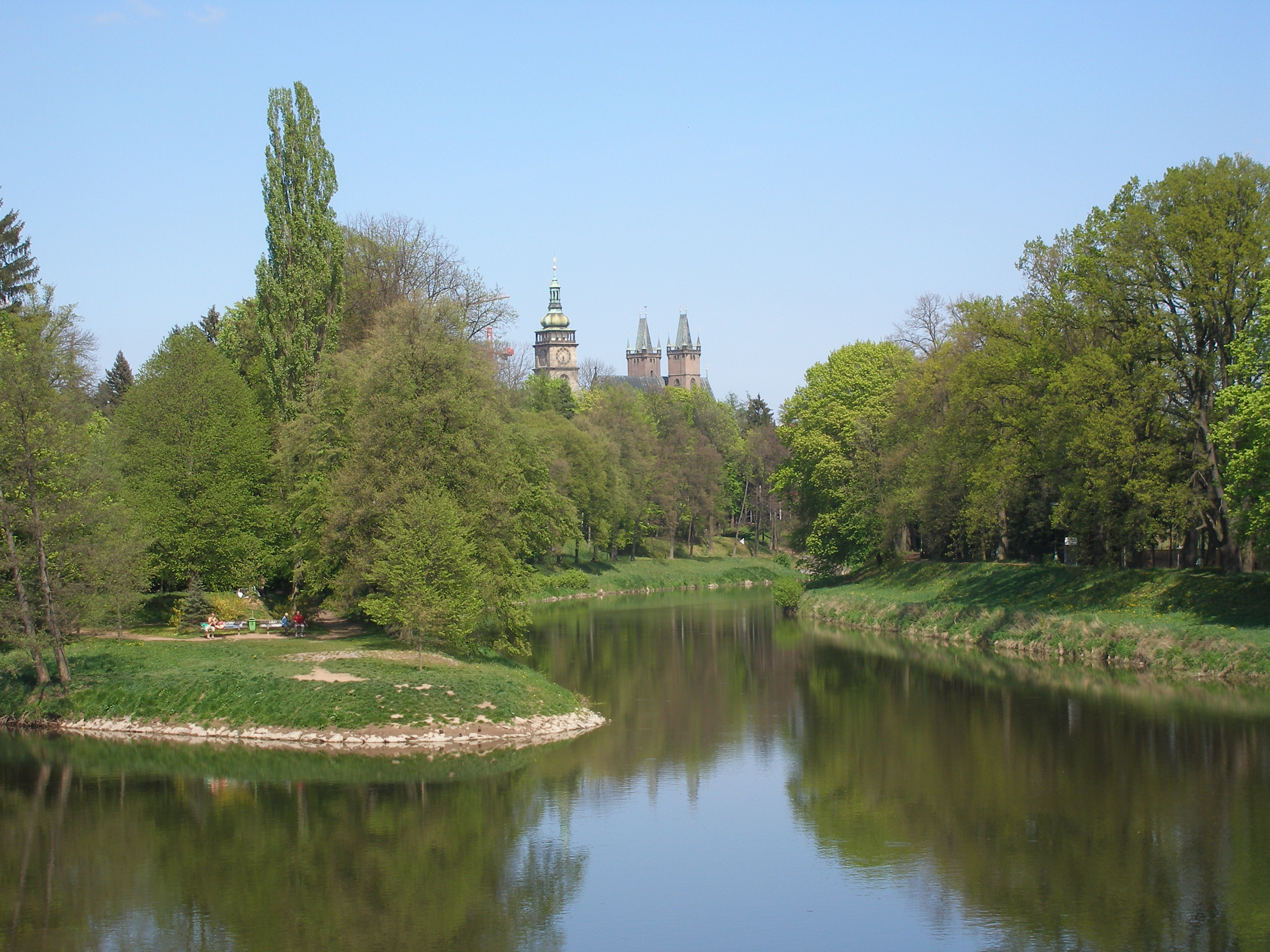 Centrum, Hradec Králové